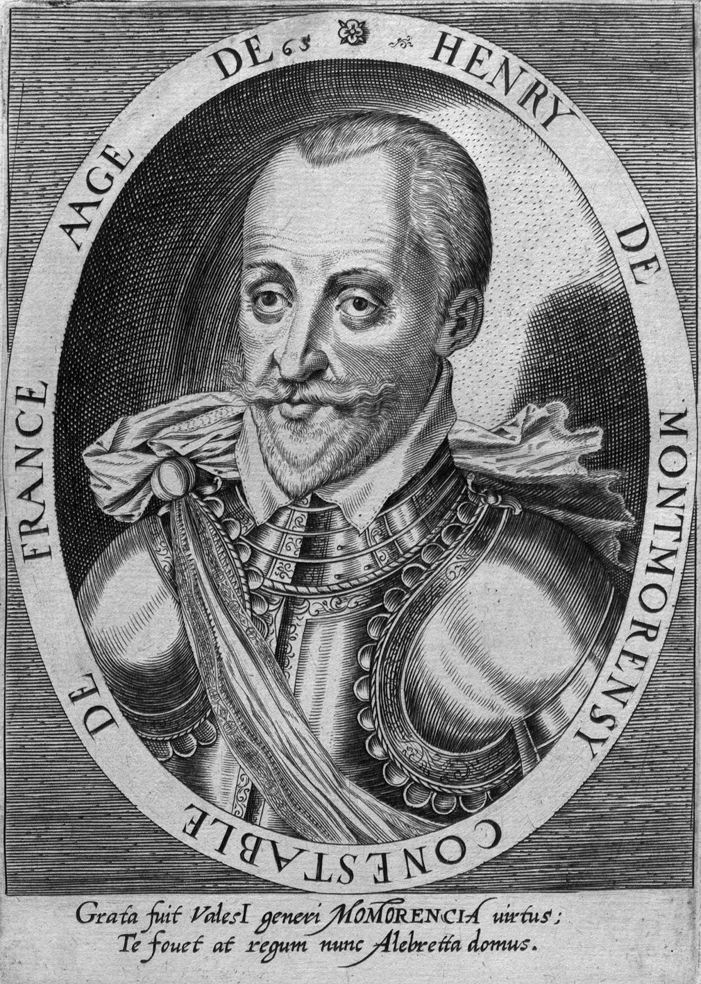 Portrait of Henry I of Montmorency